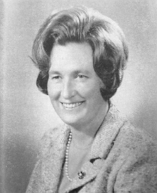 Tina Anselmi